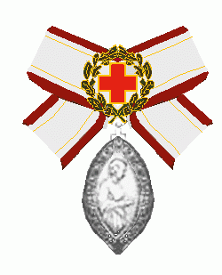 Florence Nightingale-Medal of the International Red Cross